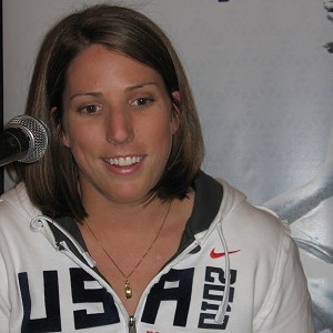 American luger Erin Hamlin at the US Olympic Summit in Chicago. Hamlin qualified for the 2010 Winter Olympics.